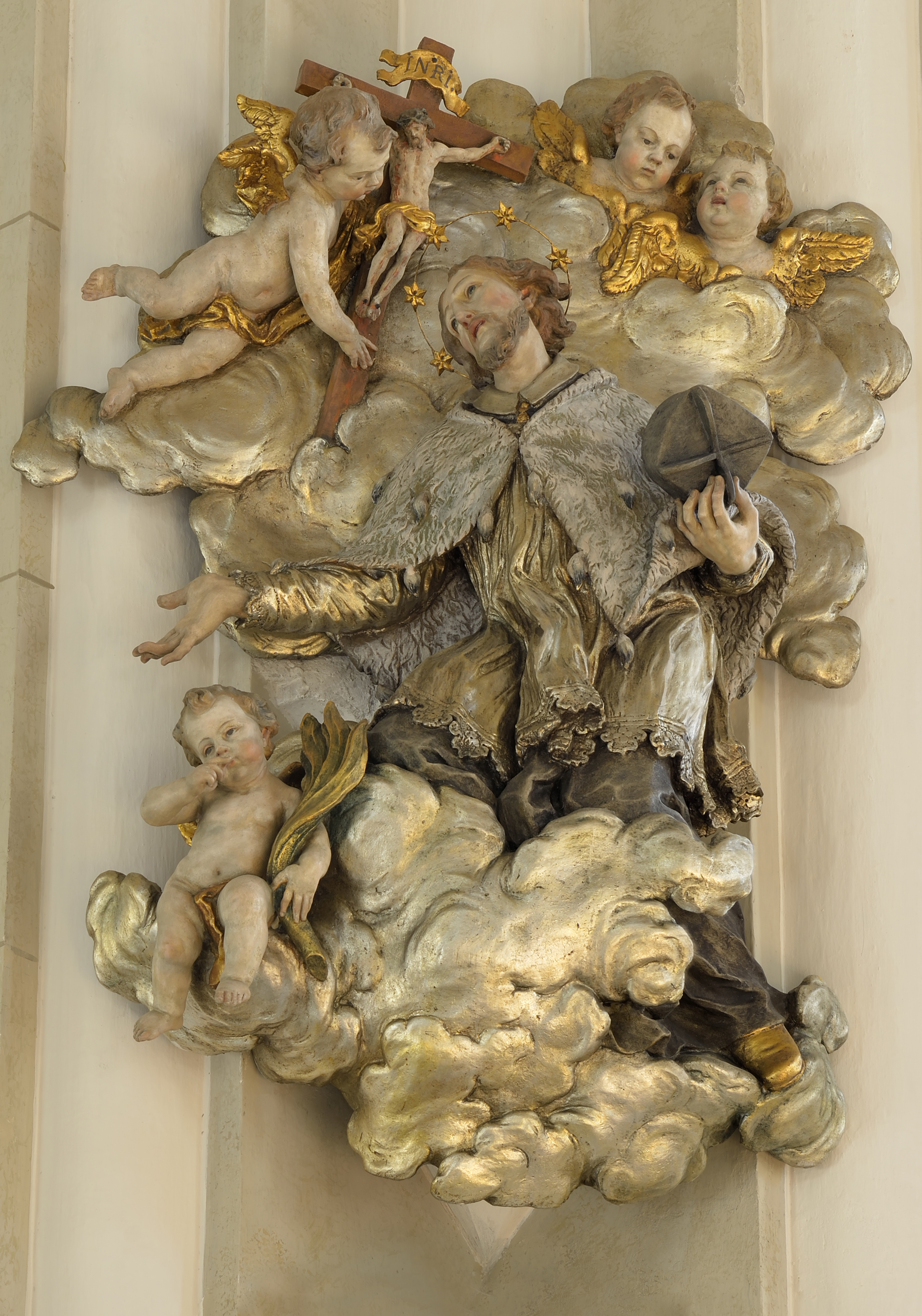 Polychromed woodcarved relief of John of Nepomuk by Domëne Moling in the parish church in La Val